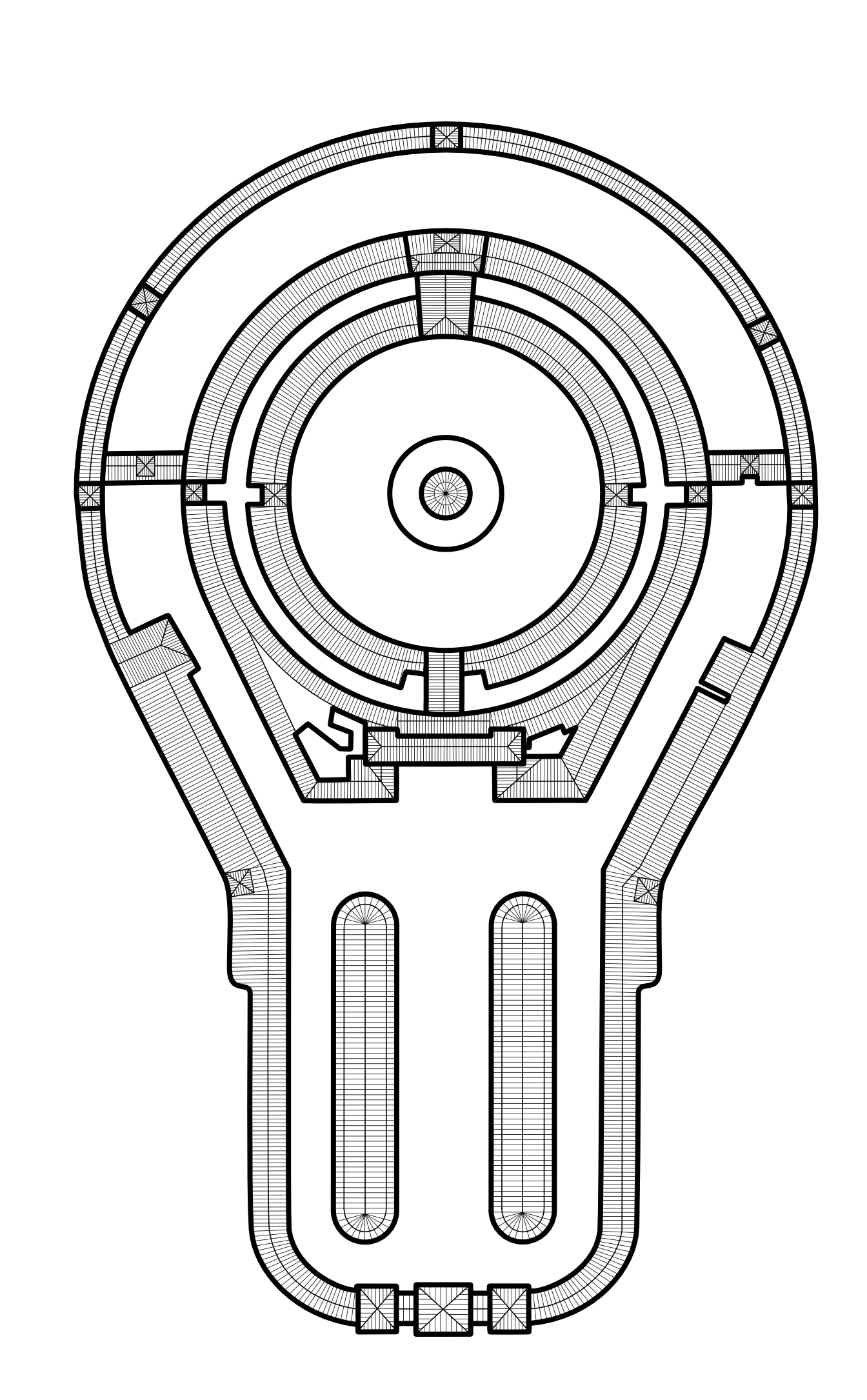 Albacete Trade Fair Building, also called "los redondeles" or "la sartén".